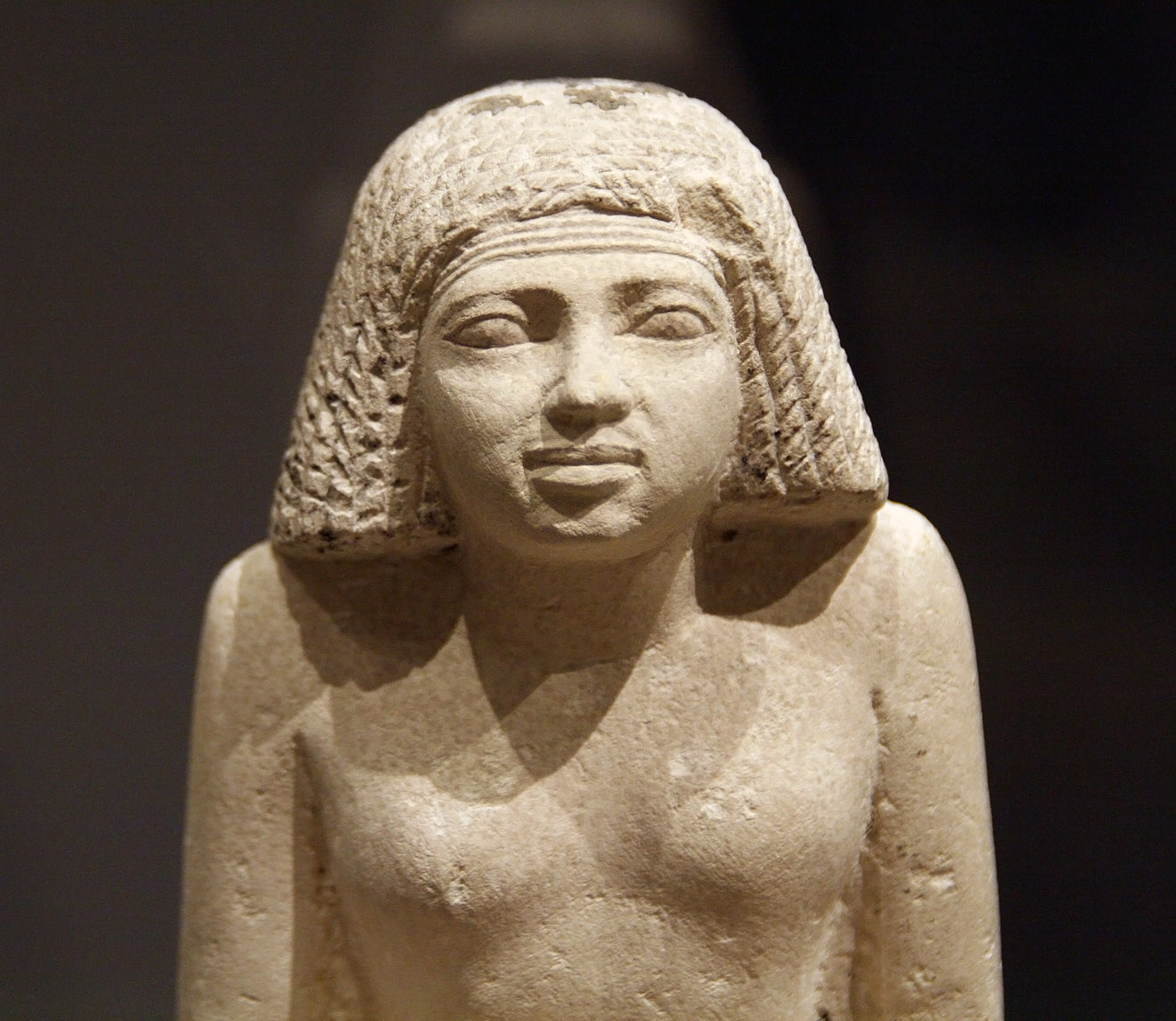 Detail of a statue of "King's daughter Nefret-Jabet", daughter of Khufu, from a tomb in Giza, 4th Dynasty, ca. 2500 BC (Staatliche Sammlung für Ägyptische Kunst in Munich).